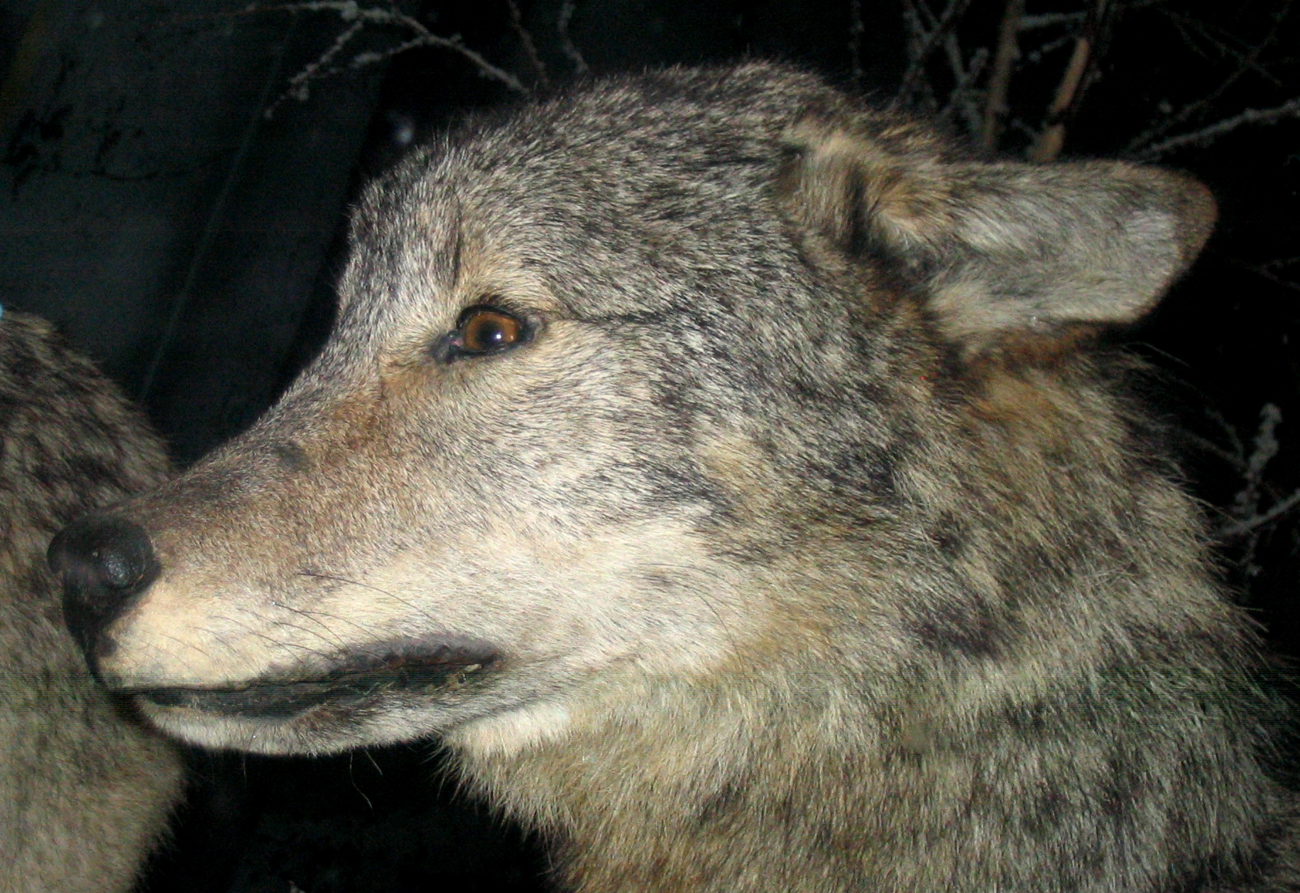 A taxidermied Grey Wolf on display at the Patuxent Wildlife Research Center.